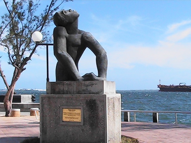 Negro Aroused, National Monument